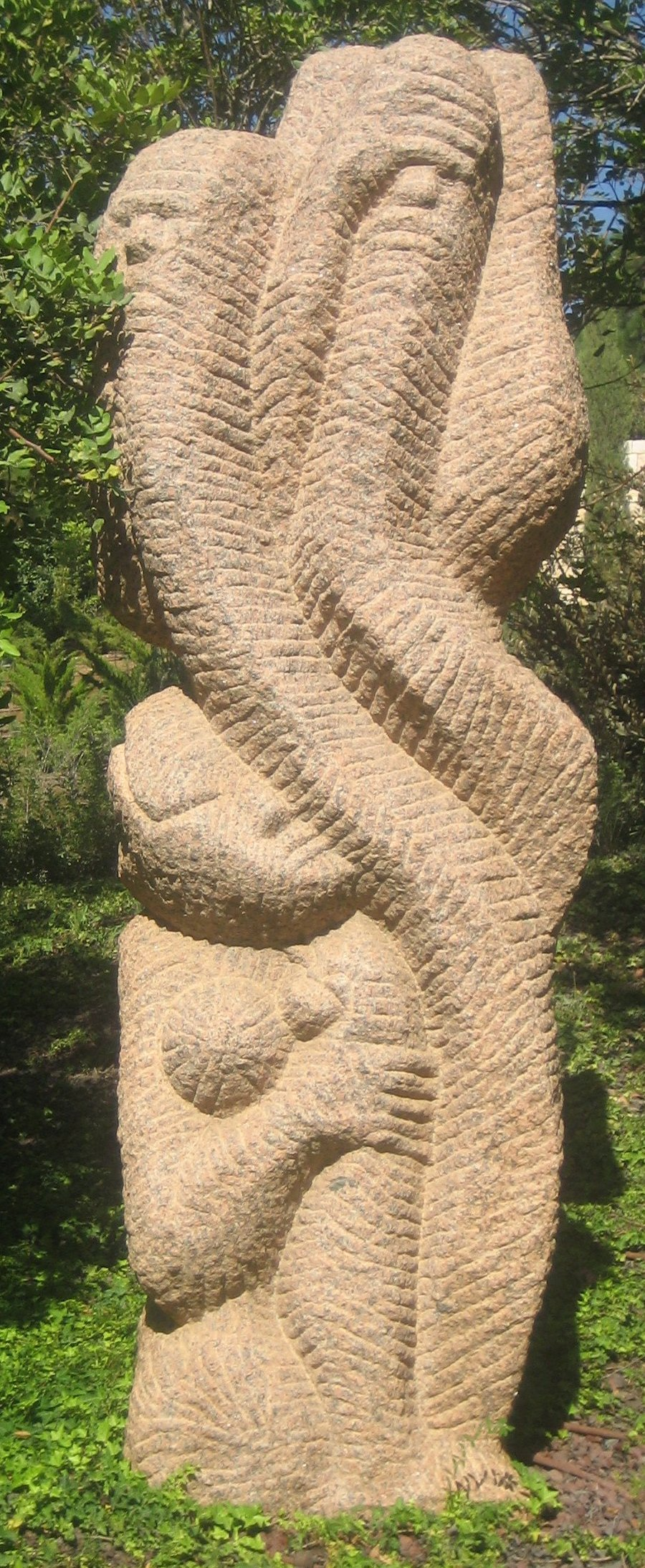 'The Unknown Righteous Among the Nations'